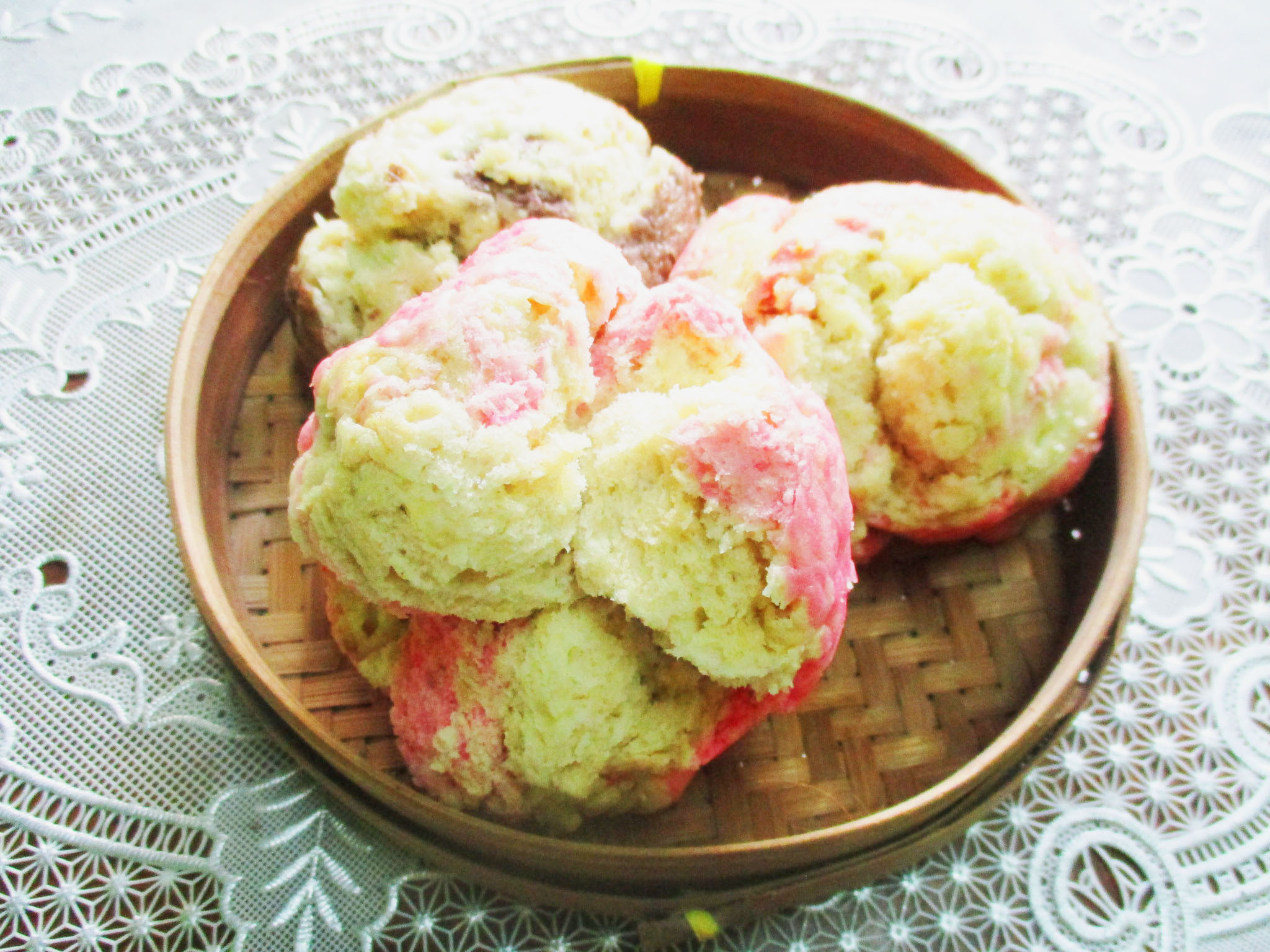 Måhå is a cake from Central Java. This cake is made from a mixture consisting of sugar, flour, yeast and coconut milk. This mixture is then poured on a leaf and steamed.